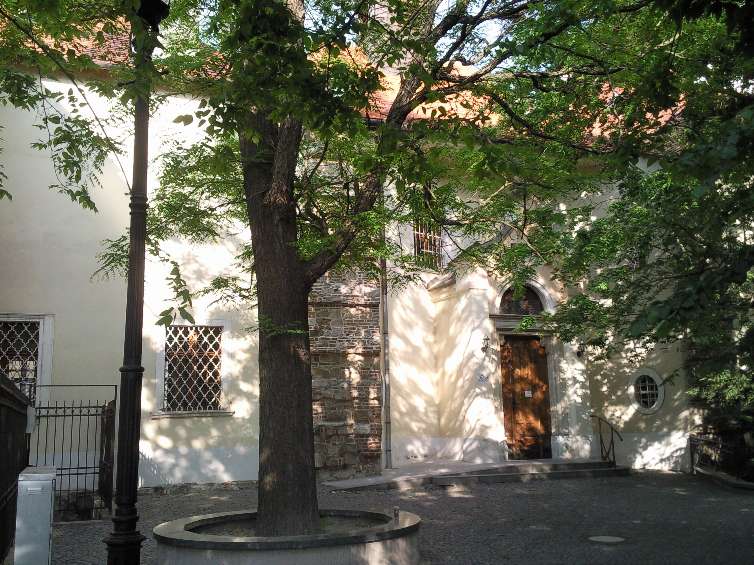 Notre Dame church in Bratislava